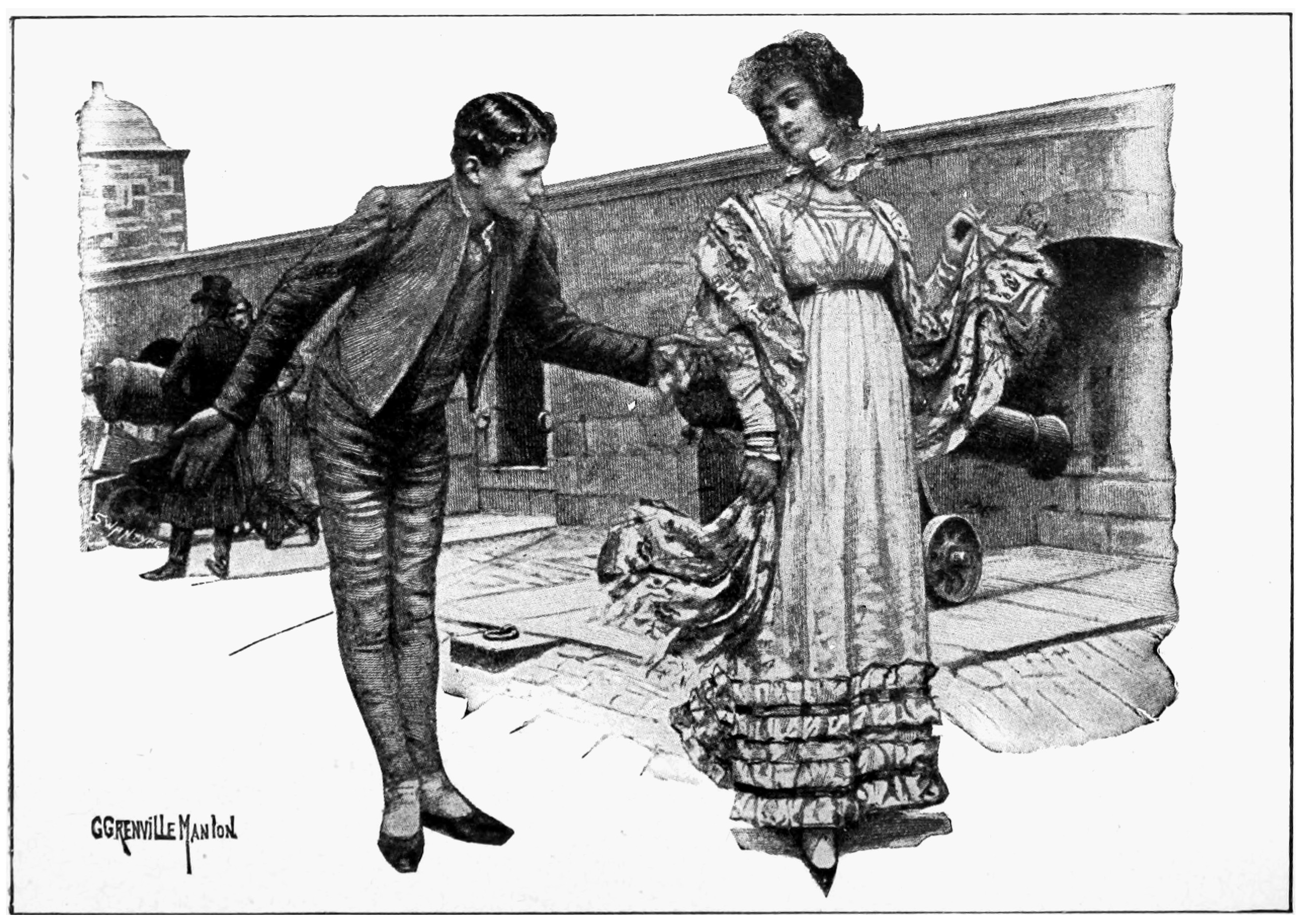 Scan of Frontispiece from the book St. Ives, written by Robert Louis Stevenson and Arthur Quiller-Couch, and illustrated by G. Grenville Manton